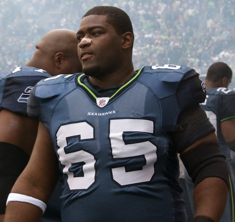 Seattle Seahawks center Chris Spencer on the sideline in the game against the Philadelphia Eagles on November 2, 2008.